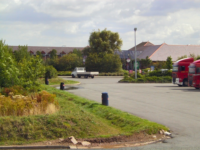 Chester Services. The service station buildings on the M56 outside Chester.